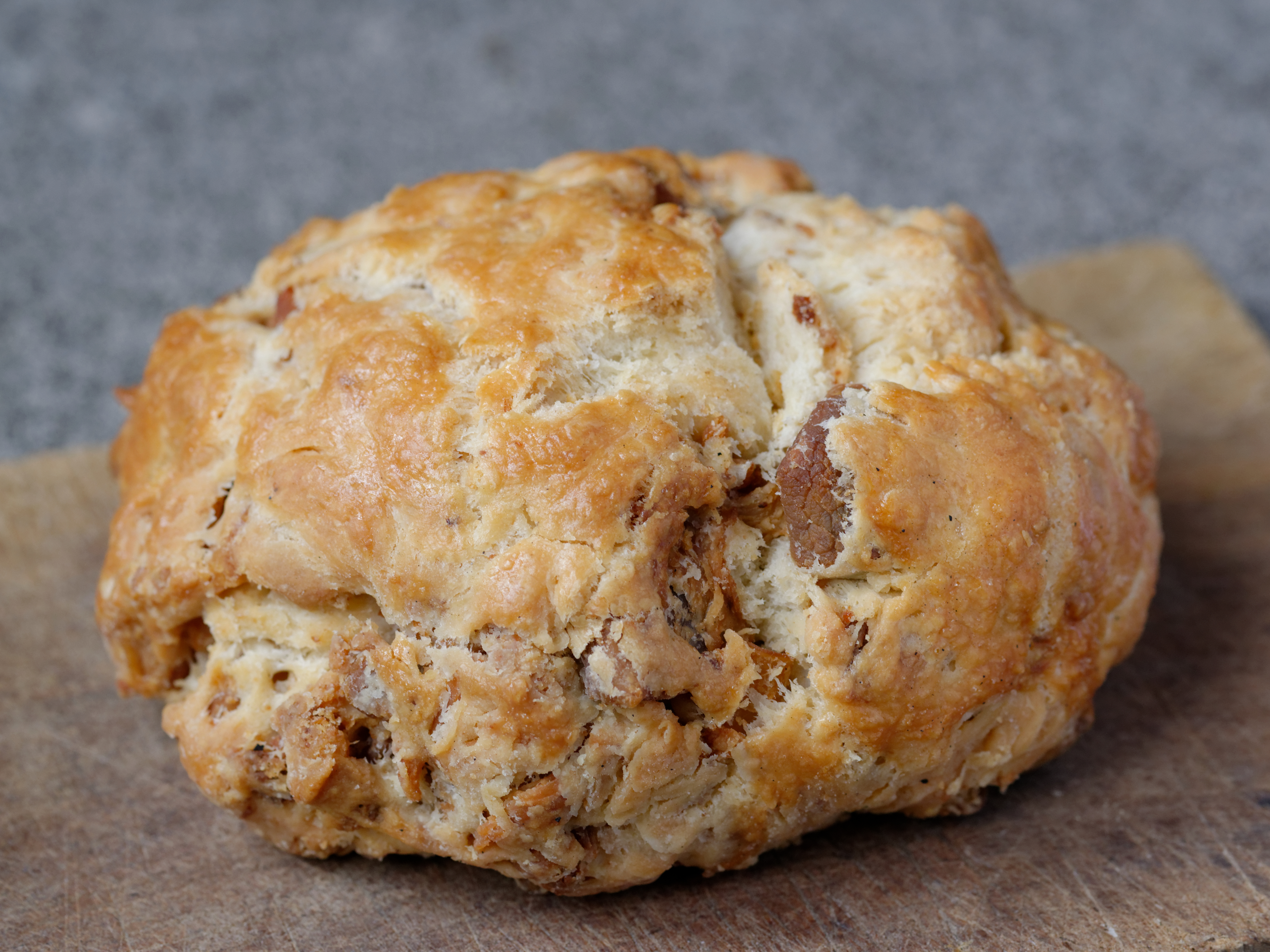 Unbroken pompe aux grattons (savoury cake with fried pork rinds), a traditional delicacy from Auvergne.